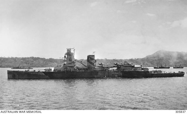 A port side view of Admiral (Adm) Doorman's flagship, De Ruyter, at anchor shortly before her loss in the Battle of the Java Sea. Note the tall super structure and funnel and the two Fokker C14W aircraft midship. The cruiser is camouflaged in the two tone grey splinter pattern common to Dutch ships, taking part in the defence of the Netherlands East Indies (NEI). De Ruyter was lost in the battle with Adm Doorman and 344 of its crew.